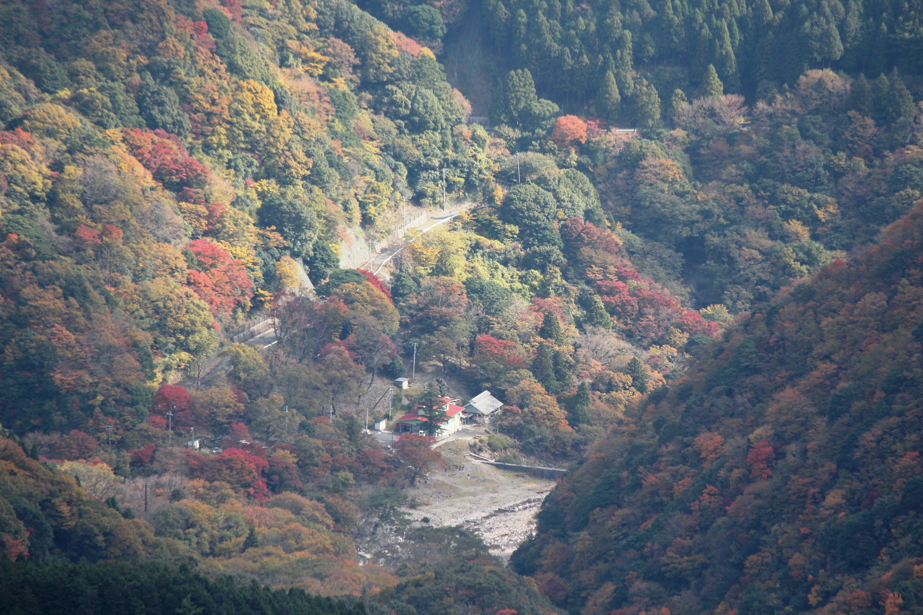 Miyazuma-hutte seen from Mount Suizawa, in Miyazuma Ravine, Yokkaichi, Mie prefecture, Japan.